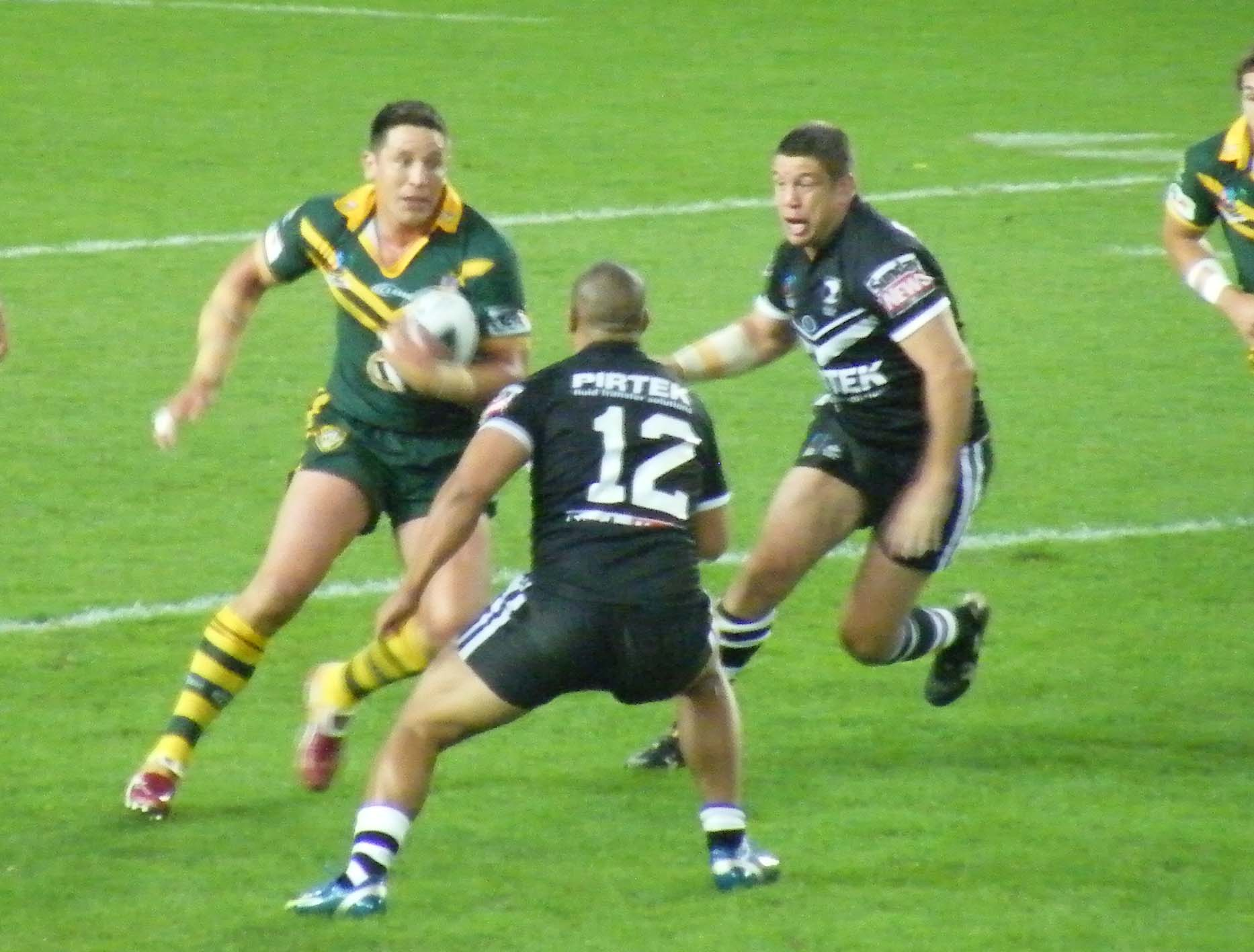 Australian Prop Steve Price, RLWC 2008.